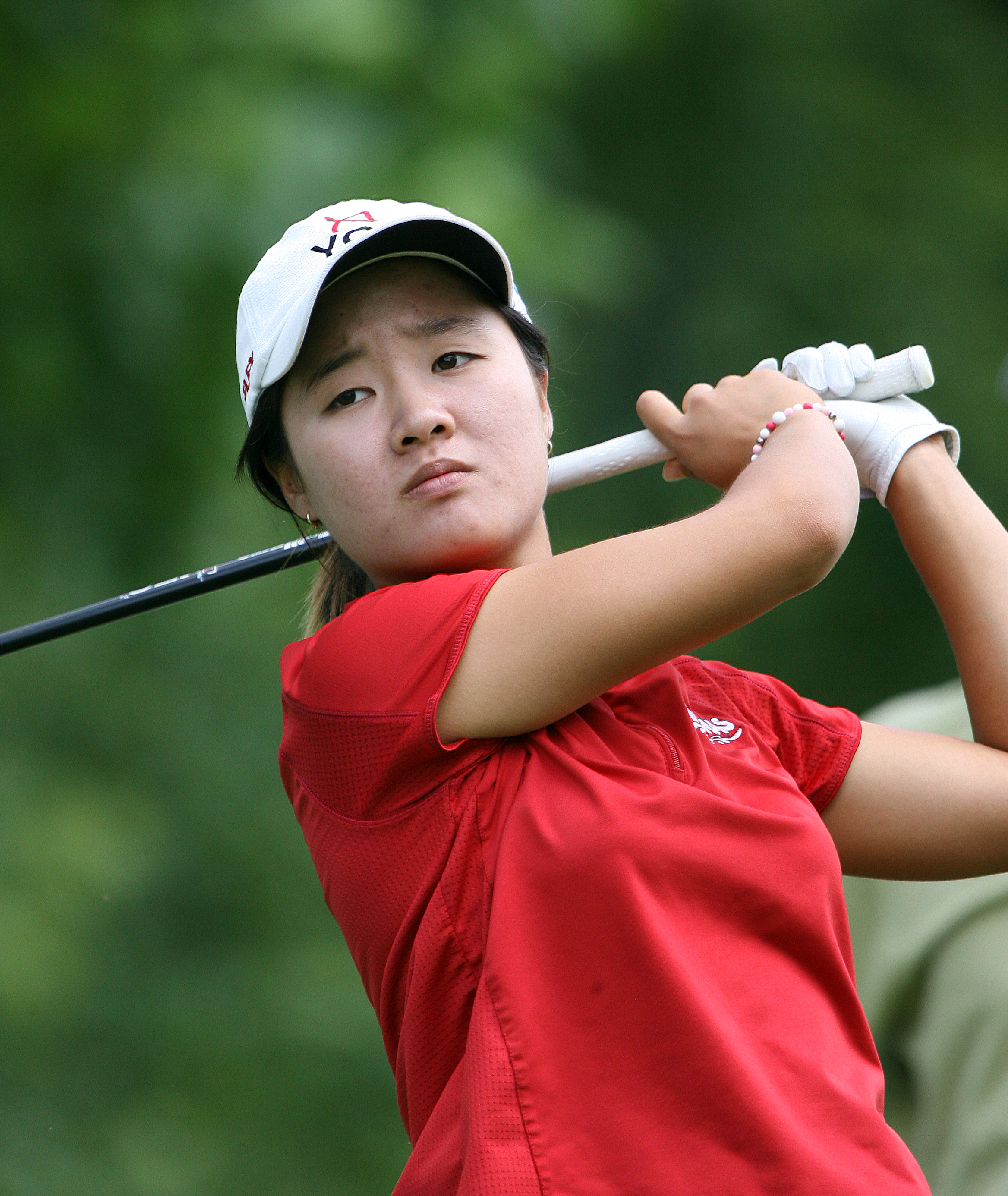 HAVRE DE GRACE, MD - JUNE 06: Na On Min (KOR) during practice before 2007 LPGA Championship held at Bulle Rock Golf Course, on June 6, 2007 in Havre de Grace, Maryland. (Photo by Keith Allison)